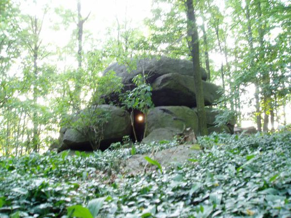 "Thors Amboss - die steinerne Himmelsscheibe von Neusalza-Spremberg" Sommersonnenwende Sonnenuntergang 2009